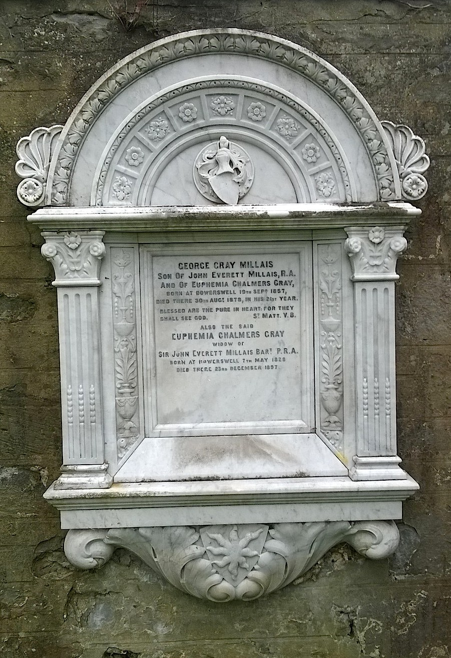 Euphemia Millais Gray, Perth, Scotland